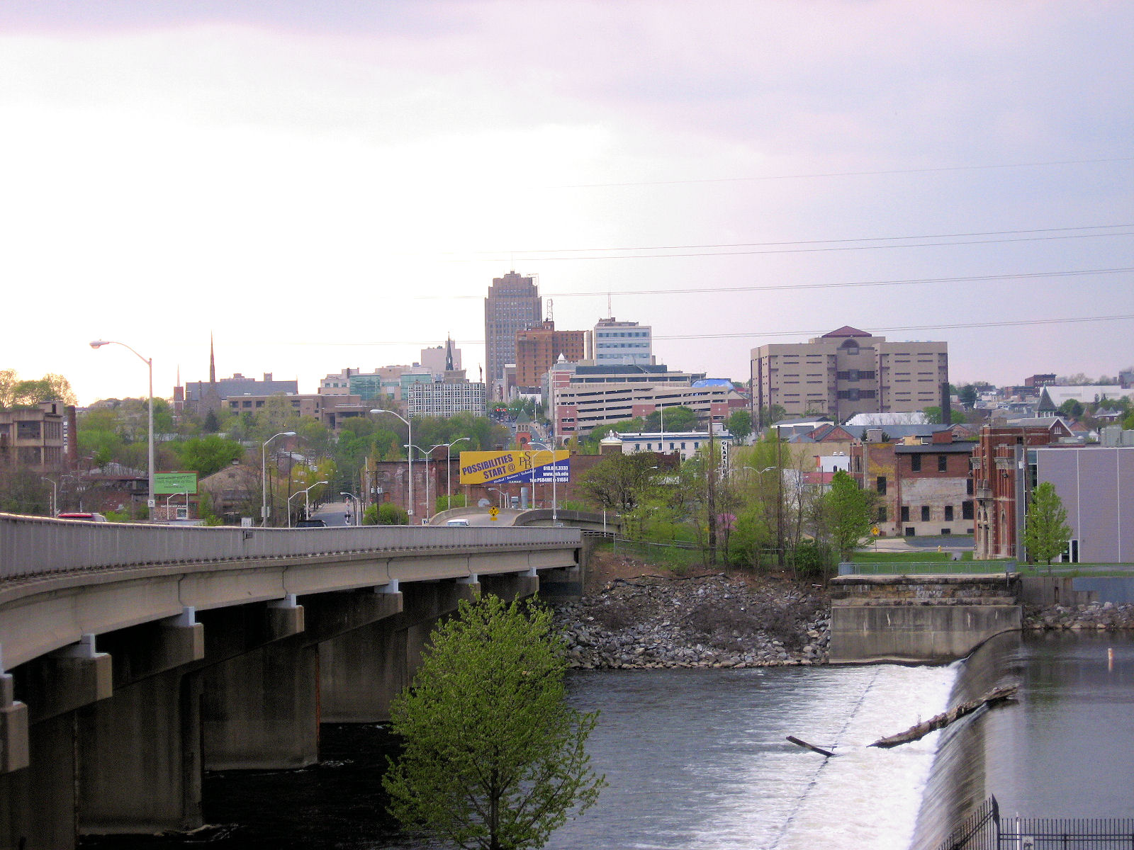 City of Allentown from east side